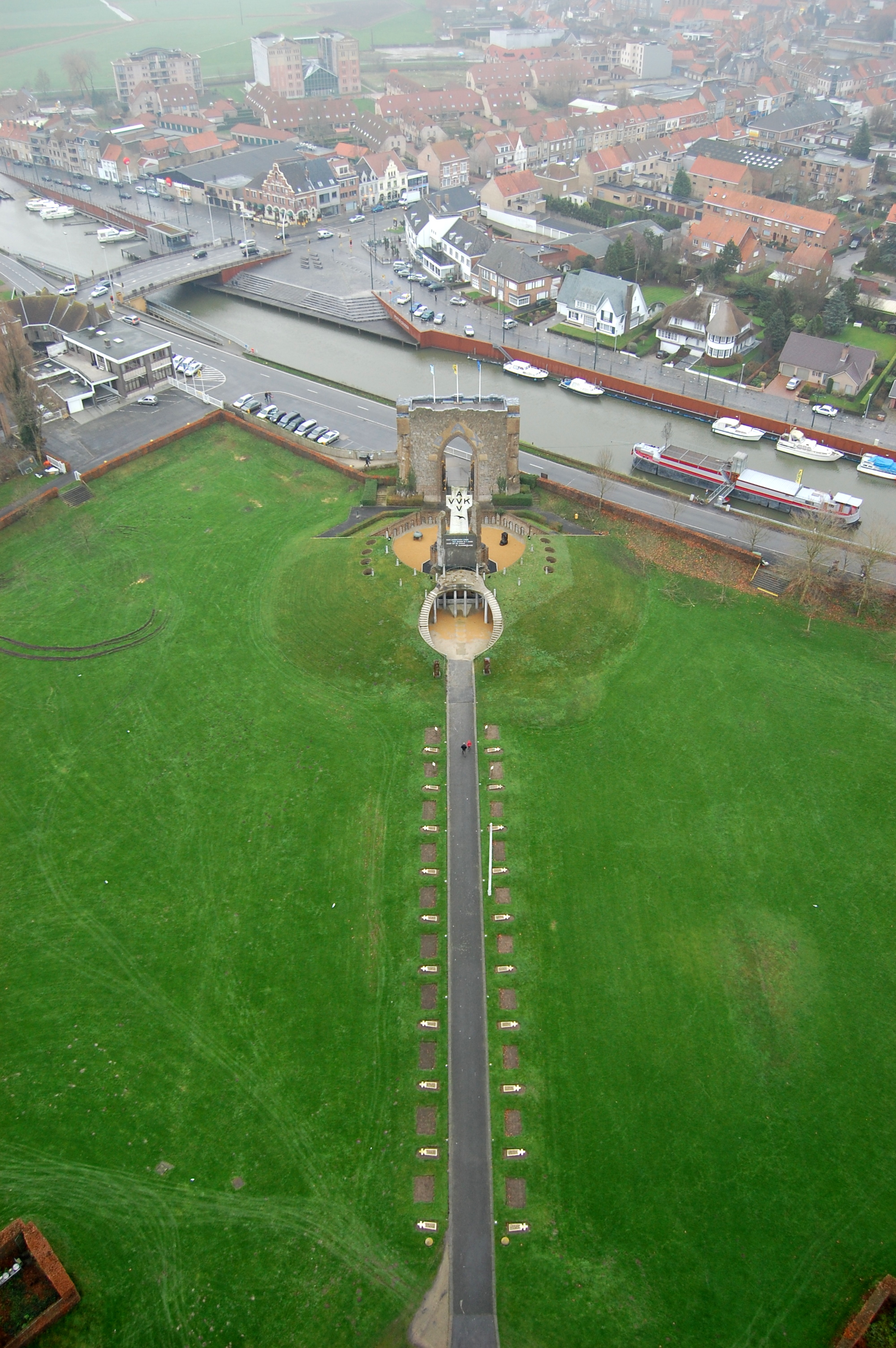 View from the top of the Ijzertoren in Diksmuide